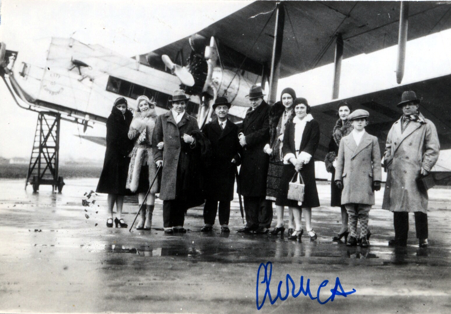 Photo of Picasso's family near of one aircraft and with members of the company Ballets Russe.